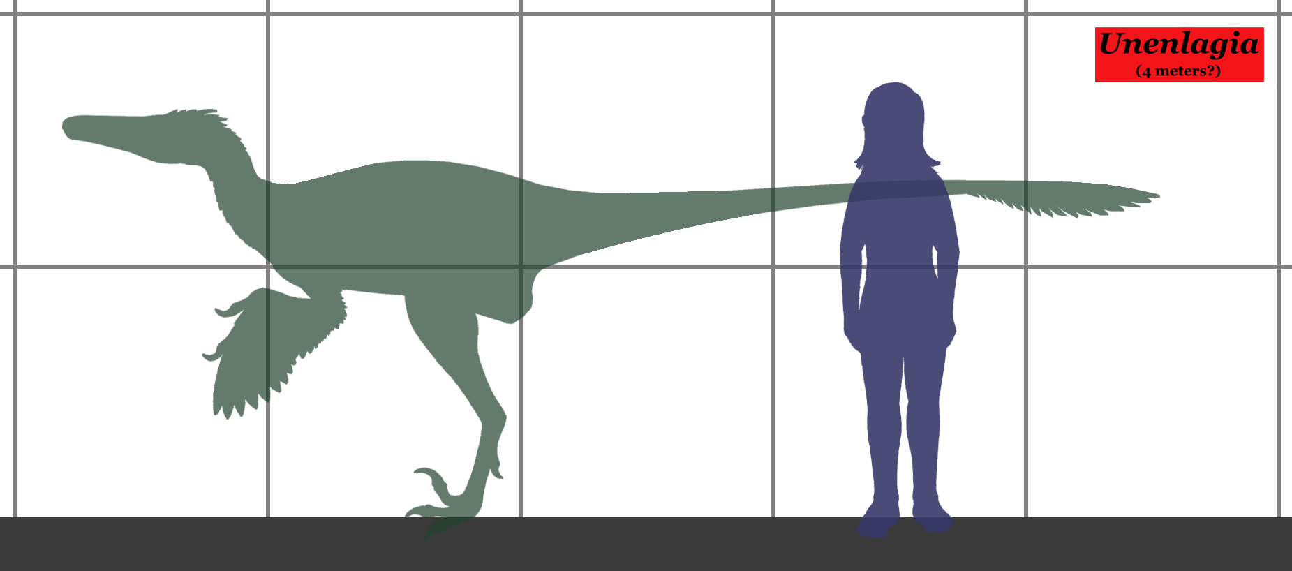 Size comparison between the dromaeosaurid dinosaur Unenlagia ("Half bird") and a human.